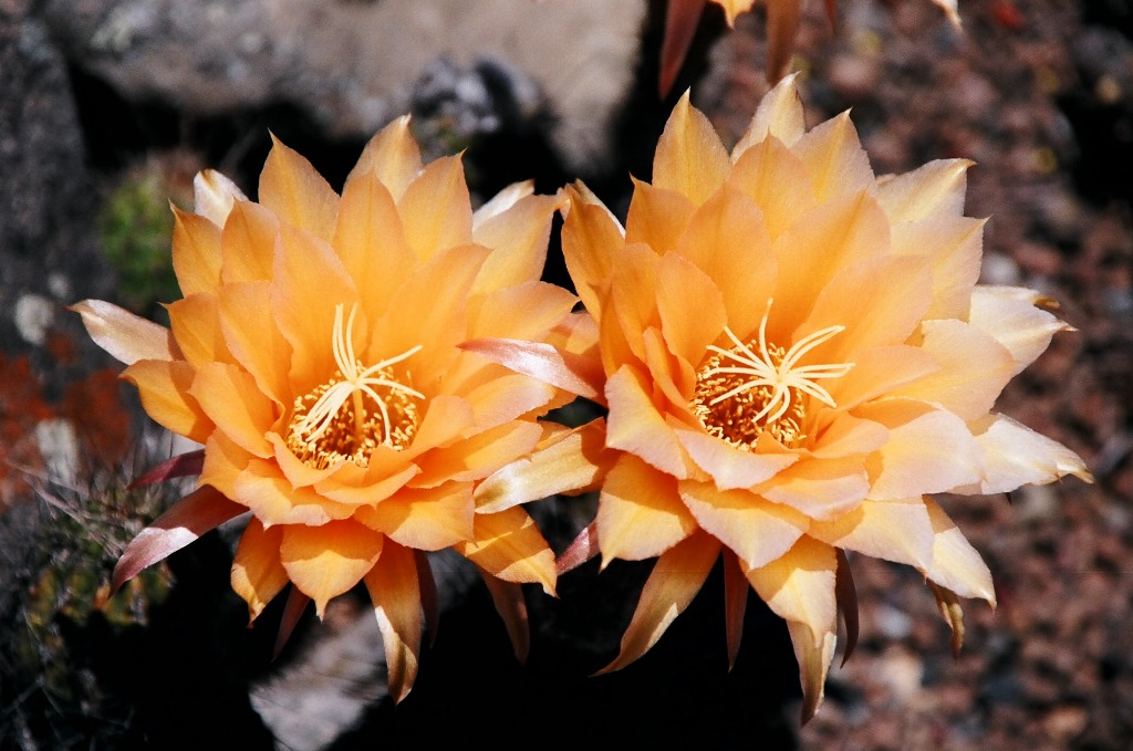 Cactus flowers growing in a garden in the Bay Area.